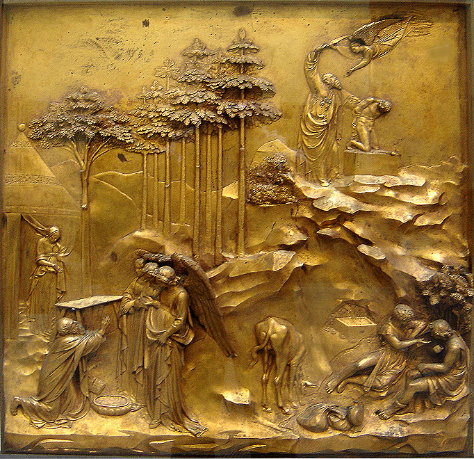 Original pannel from the Gates of Paradise, by Lorenzo Ghiberti, depicting the sacrifice of Isaac. Museo dell'Opera del Duomo, Florence